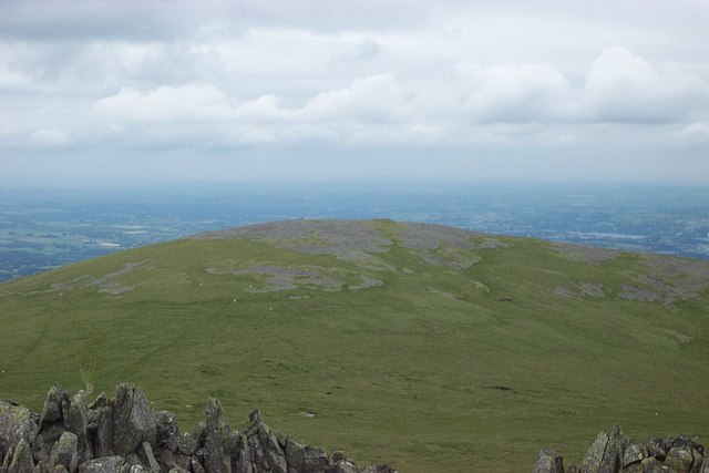 Drosgl from Bera Bach Summit. This is the summit of Bera Bach looking Northwestwards to Drosgl beyond from grid reference SH 67208 67769.